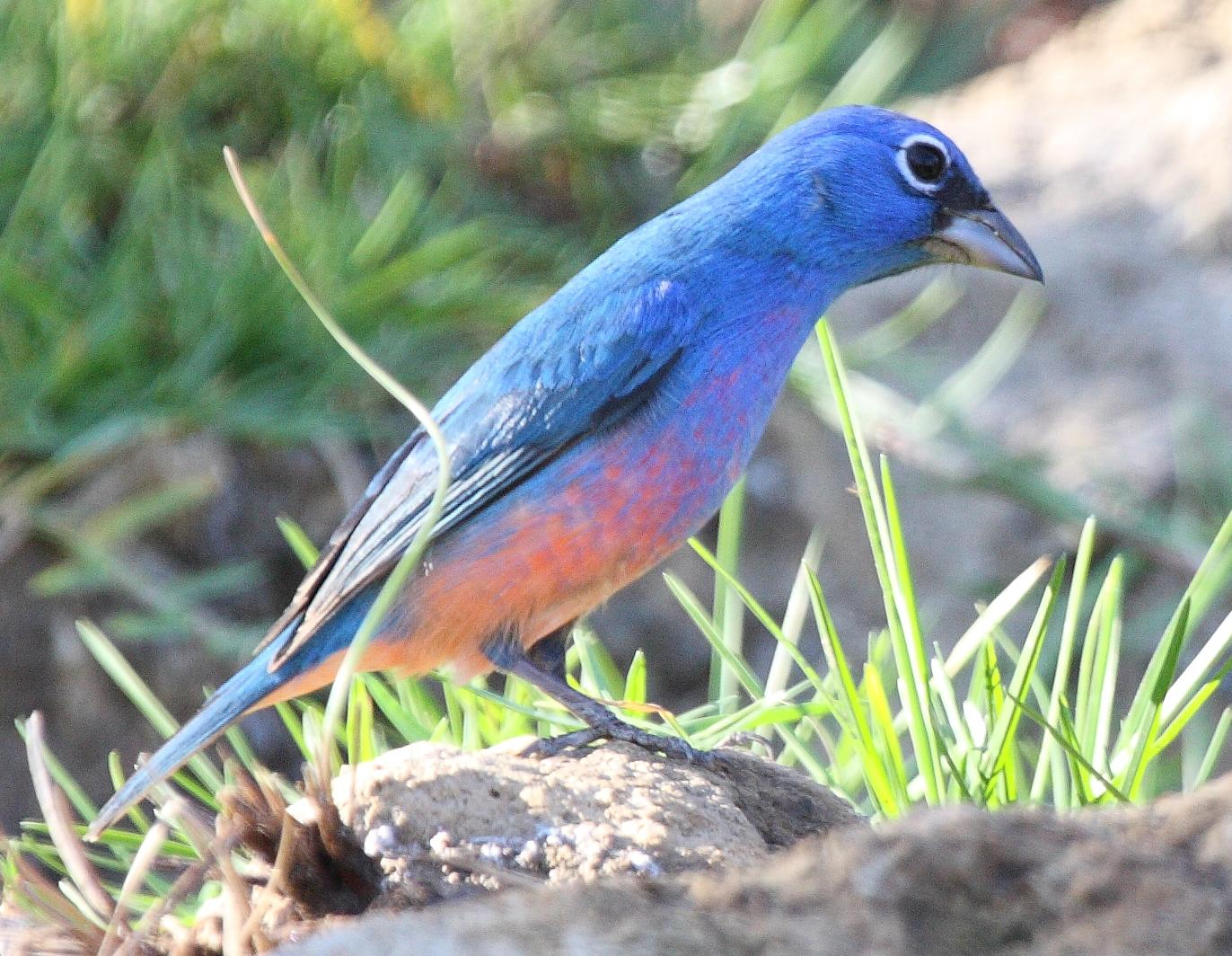 Rose-bellied Bunting